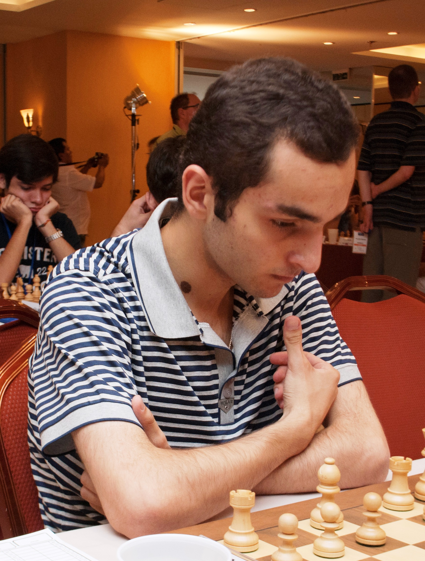 GM Ter-Sahakyan Samvel, WChJ Athens 2012